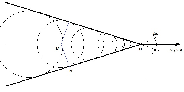 Mach wave